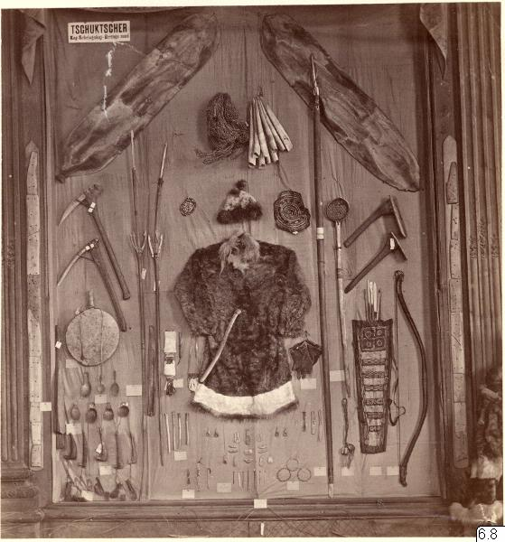 Interior from the Vega exhibition at the Stockholm Royal Palace 1880, chukchee objects from the Vega expedition